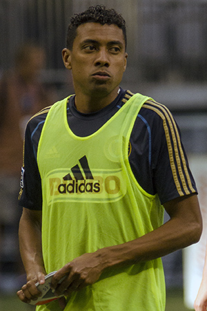 Picture of soccer player José Kléberson.